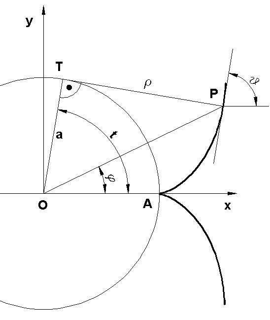 Involute of a circle